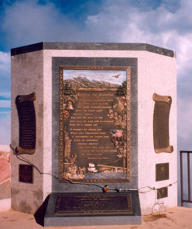 Plaque commemorating the song, "America the Beautiful" atop Pikes Peak.